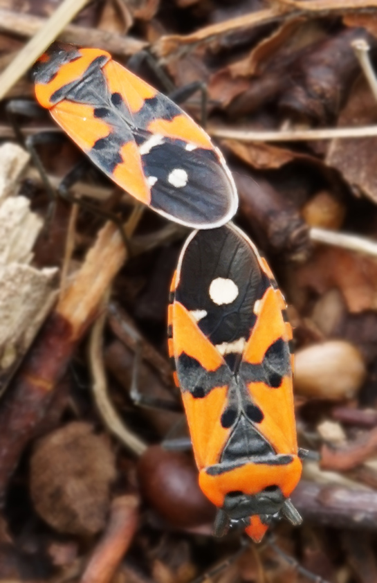 Lygaeus equestris bugs mating on a mountainside, Slovnia. This photograph was taken with a Sony Alpha a5000.